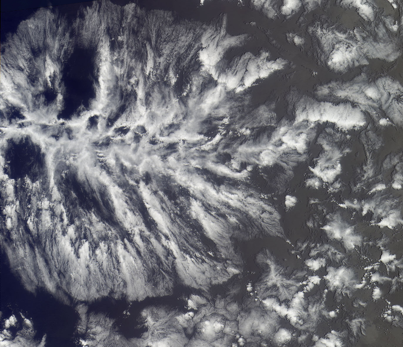 Satellite image of an actinoform cloud over the eastern Pacific Ocean.